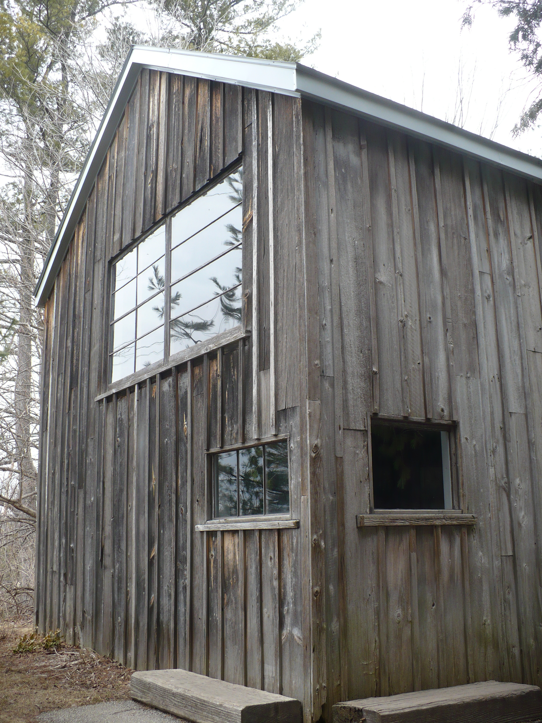 Tom Thomson cabin at the McMichael Gallery in Kleinburg, Ontario